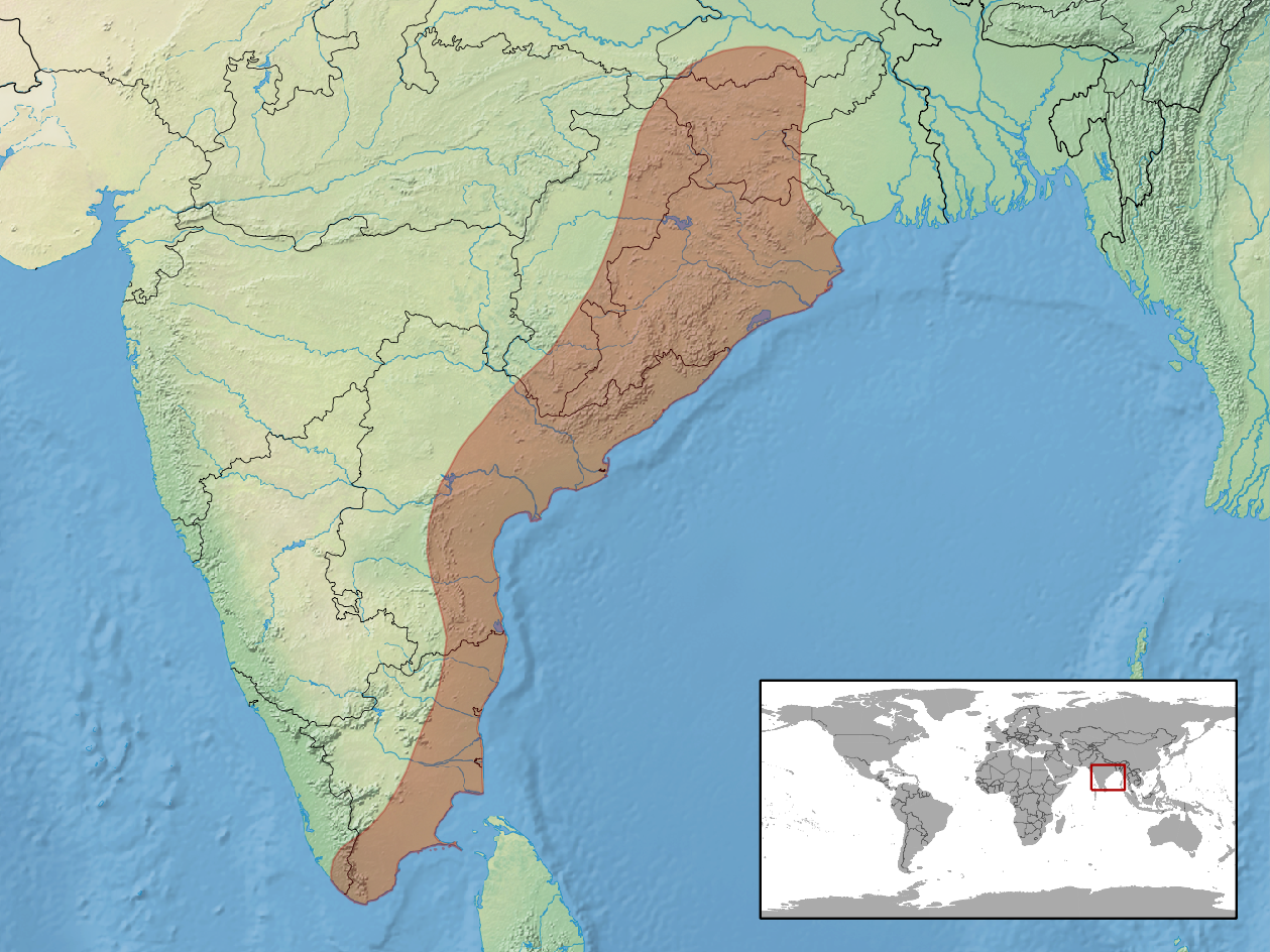 geographic distribution of Psammophilus dorsalis (Native: India; Introduced: Germany)